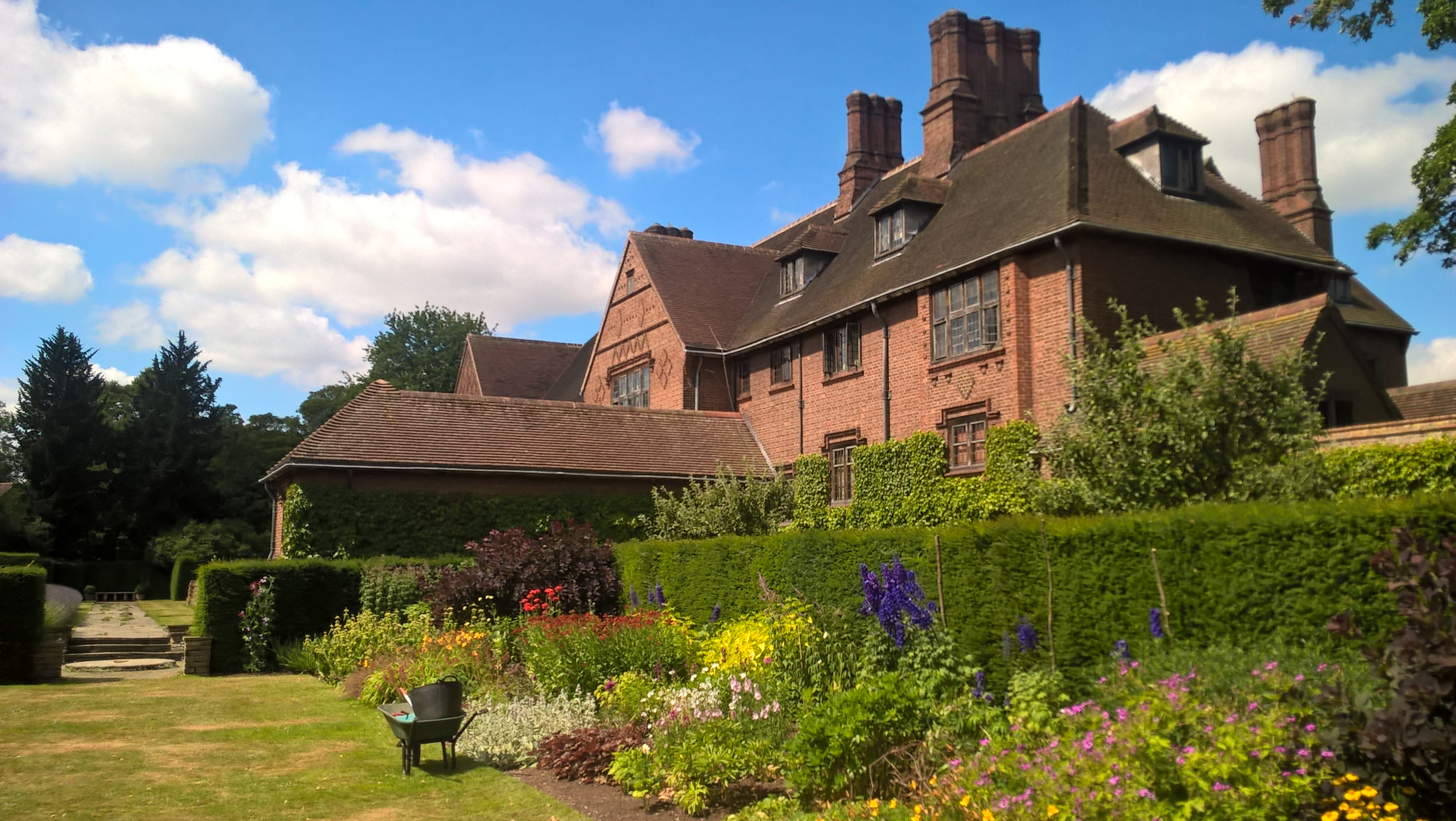 Goddards House and Garden, York (Grade I Listed building - Ref no. 1256461) - July 2018